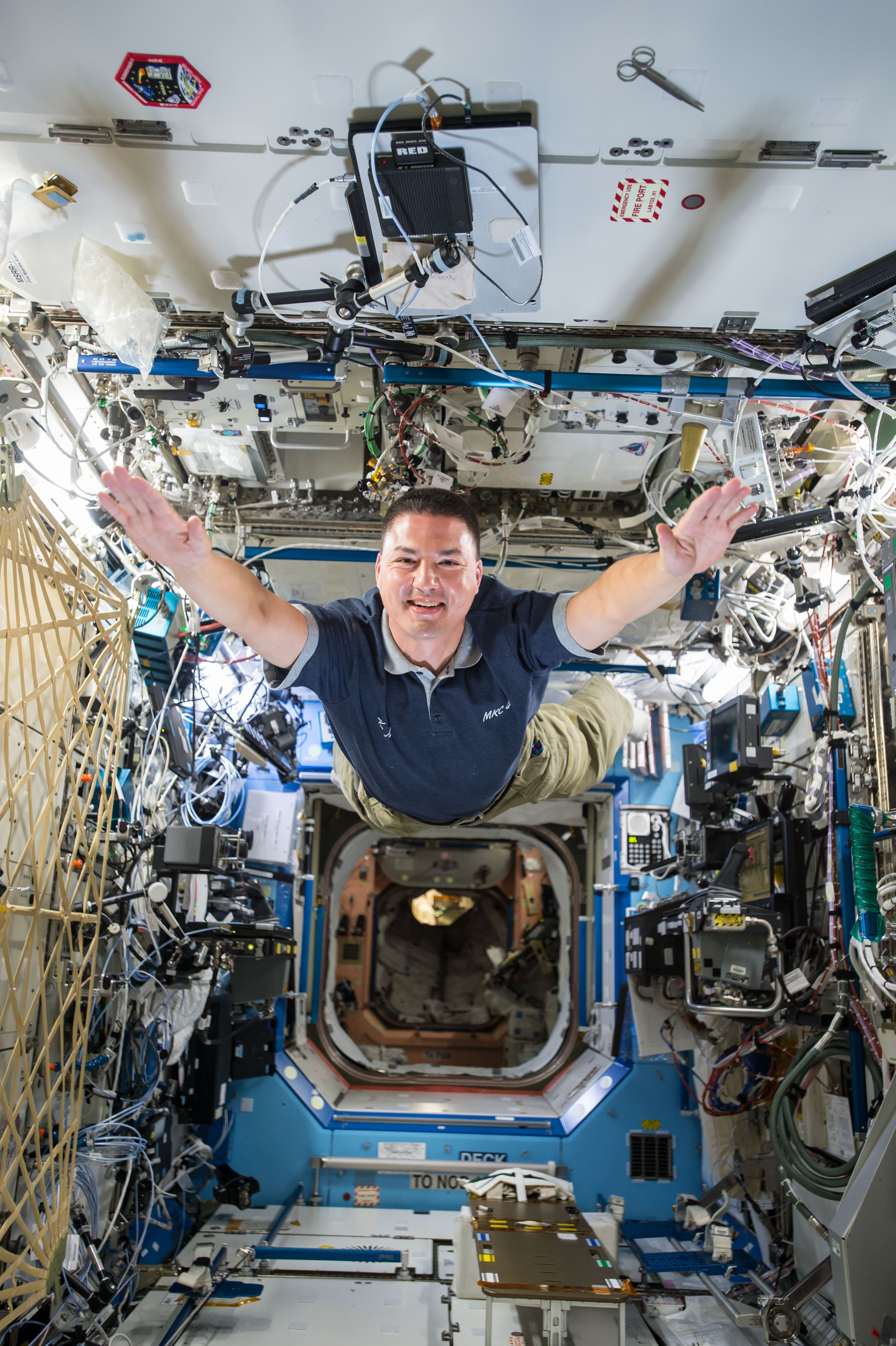 Kjell Lindgren as Superman in the Destiny laboratory